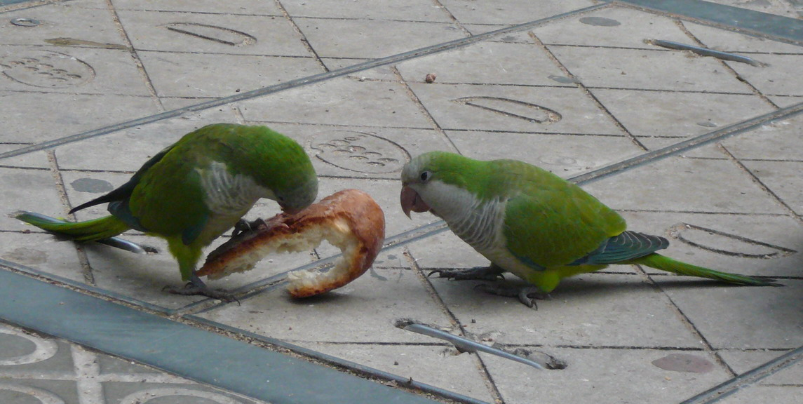 Myiopsitta monachus in Barcelona